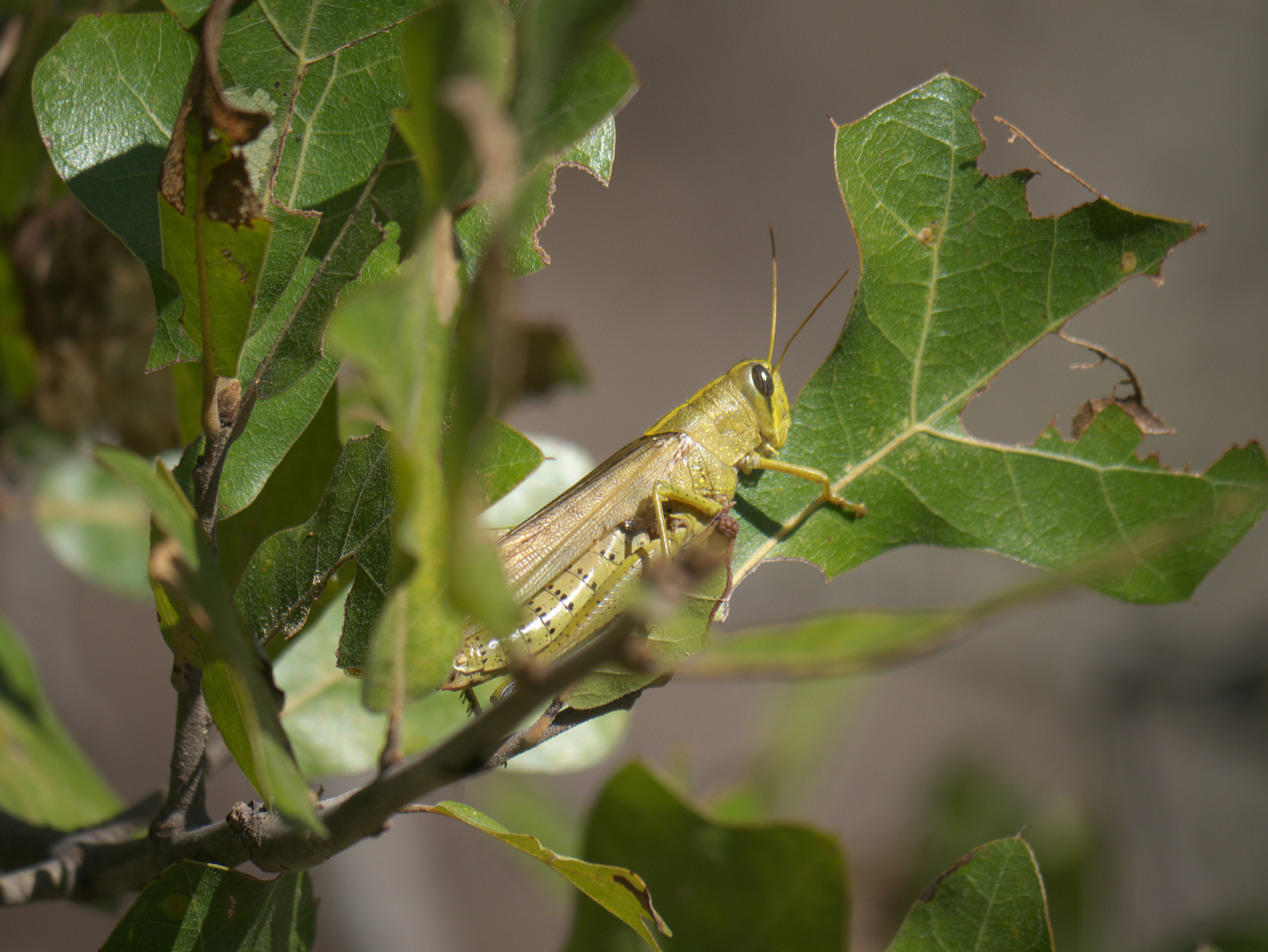 Schistocerca lineata, Spotted Bird Grasshopper, ID Confidence: 60